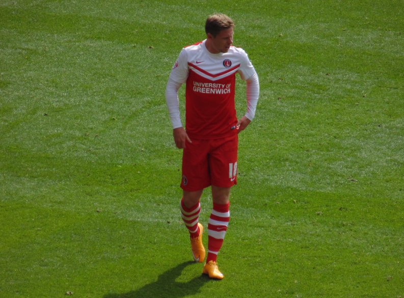 Simon Church